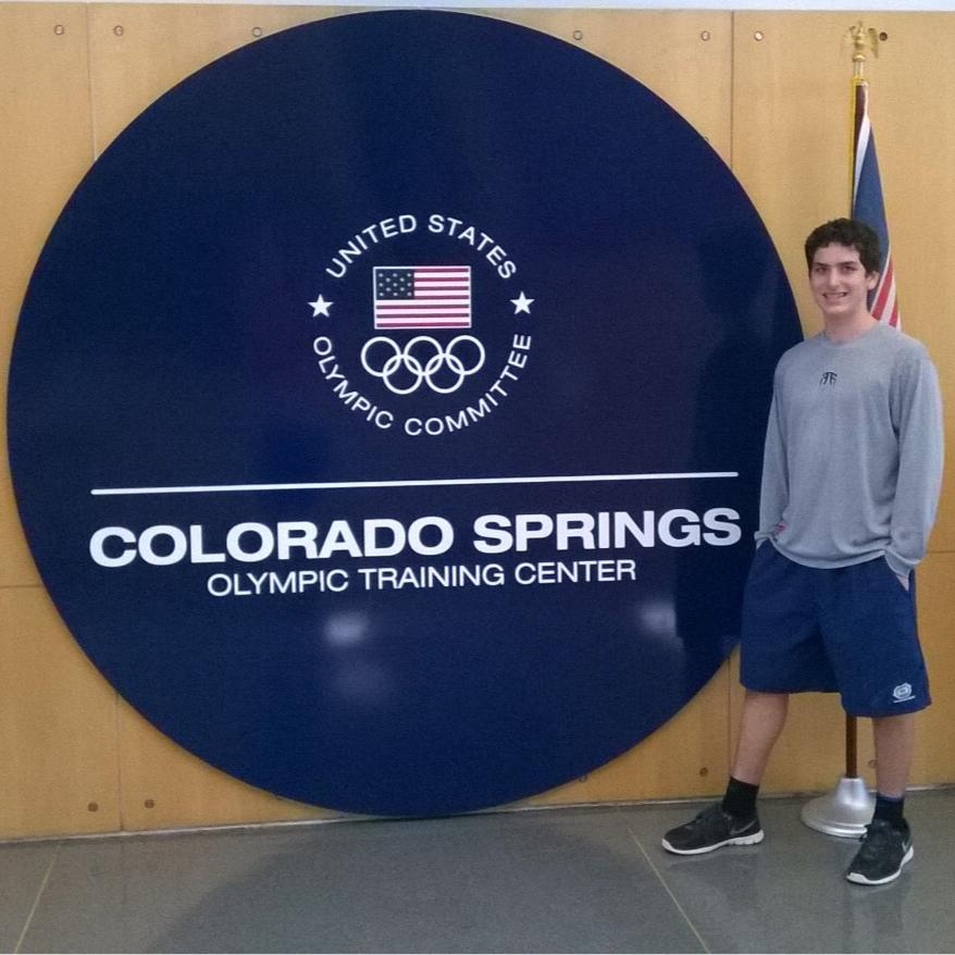 High school Sunmer 7-2014 at USOC training center for Team USA training camp for racquetball with junior national team for their upcoming appearance at World champs Cali Columbia where the team took 3rd overall and Dane 5th place in Doubles boys 14.